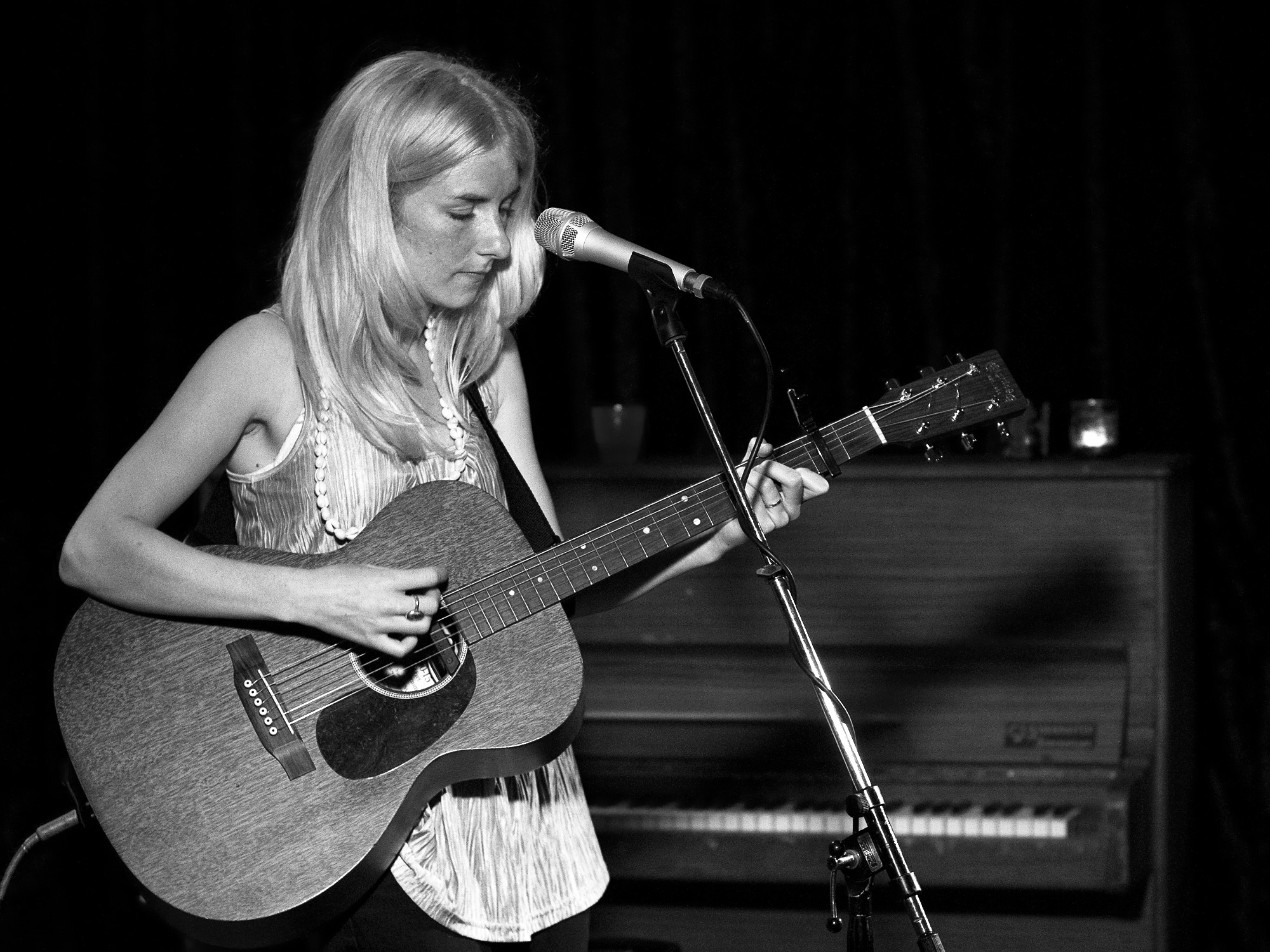 Swedish singer-songwriter Jonna Lee performing in Stockholm, Sweden.